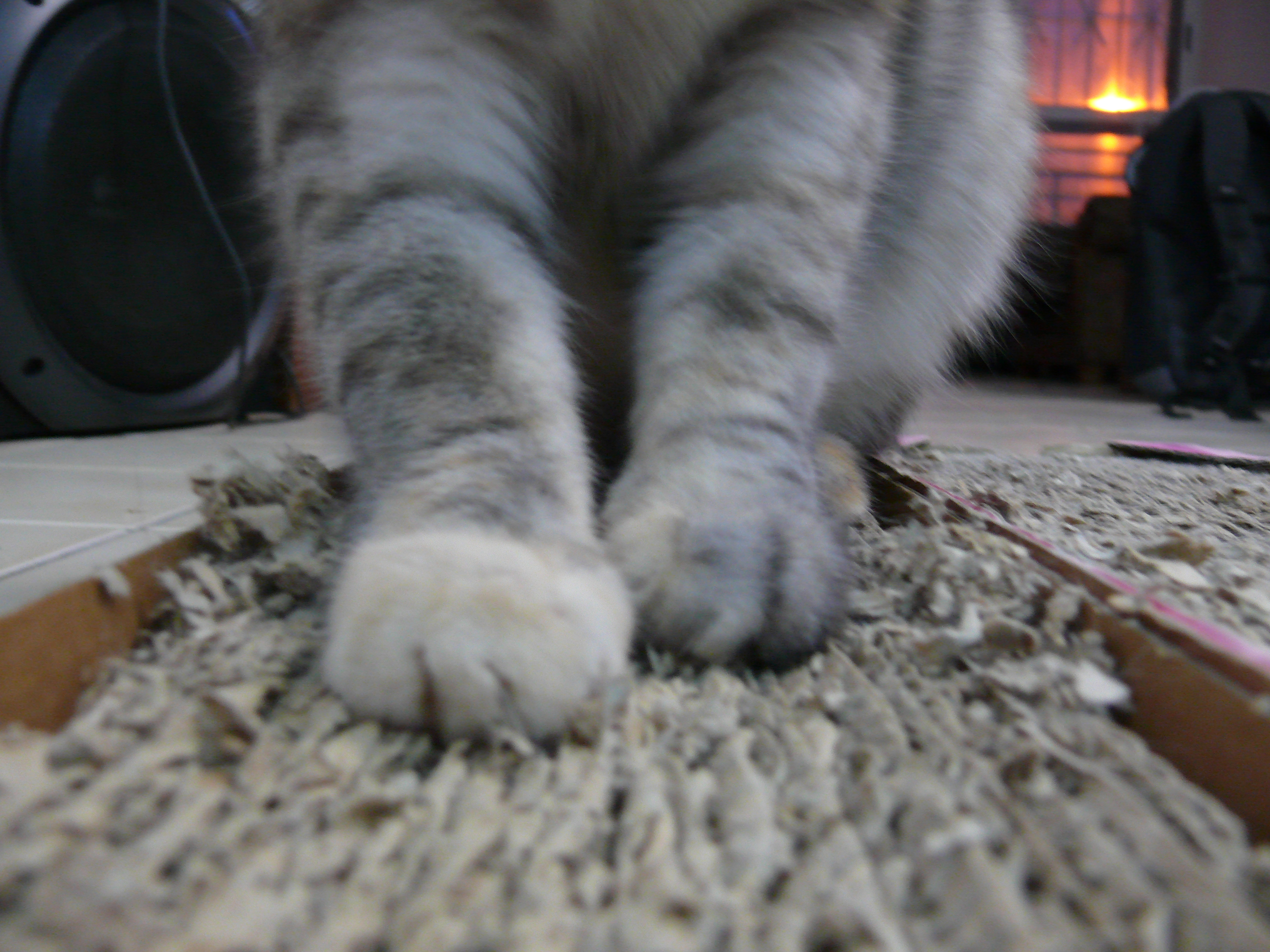 Cat using scratch pad made of corrugated cardboard/fiberboard.